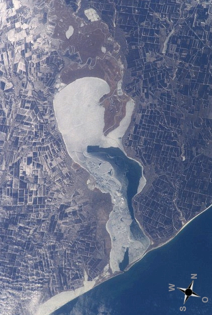 Satellite photo of the Dnister delta at the lagoon Dnistrovski-Liman partly covered by ice, near the Black Sea, Ukraine